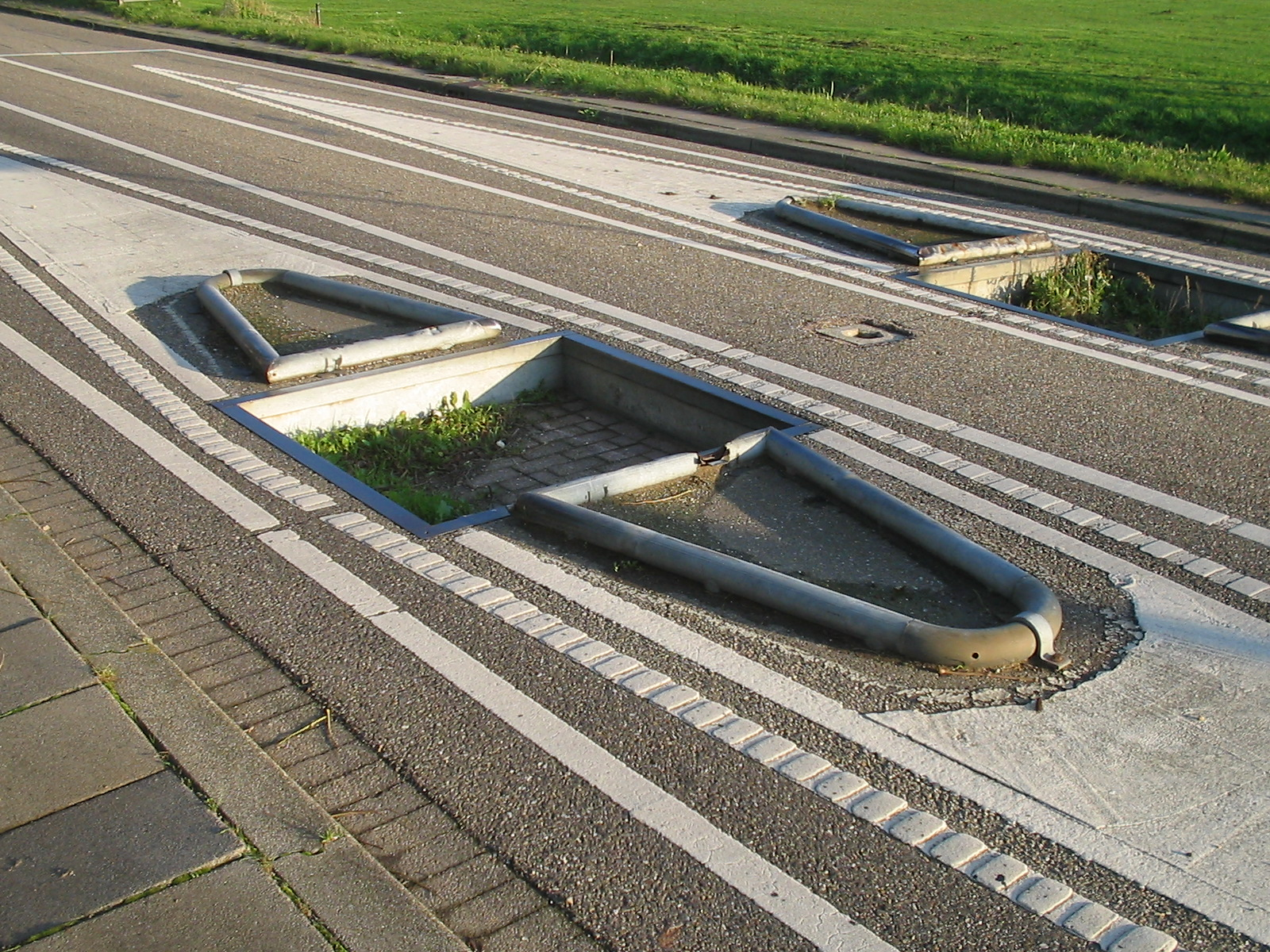 bussluis, Delft Tanthof